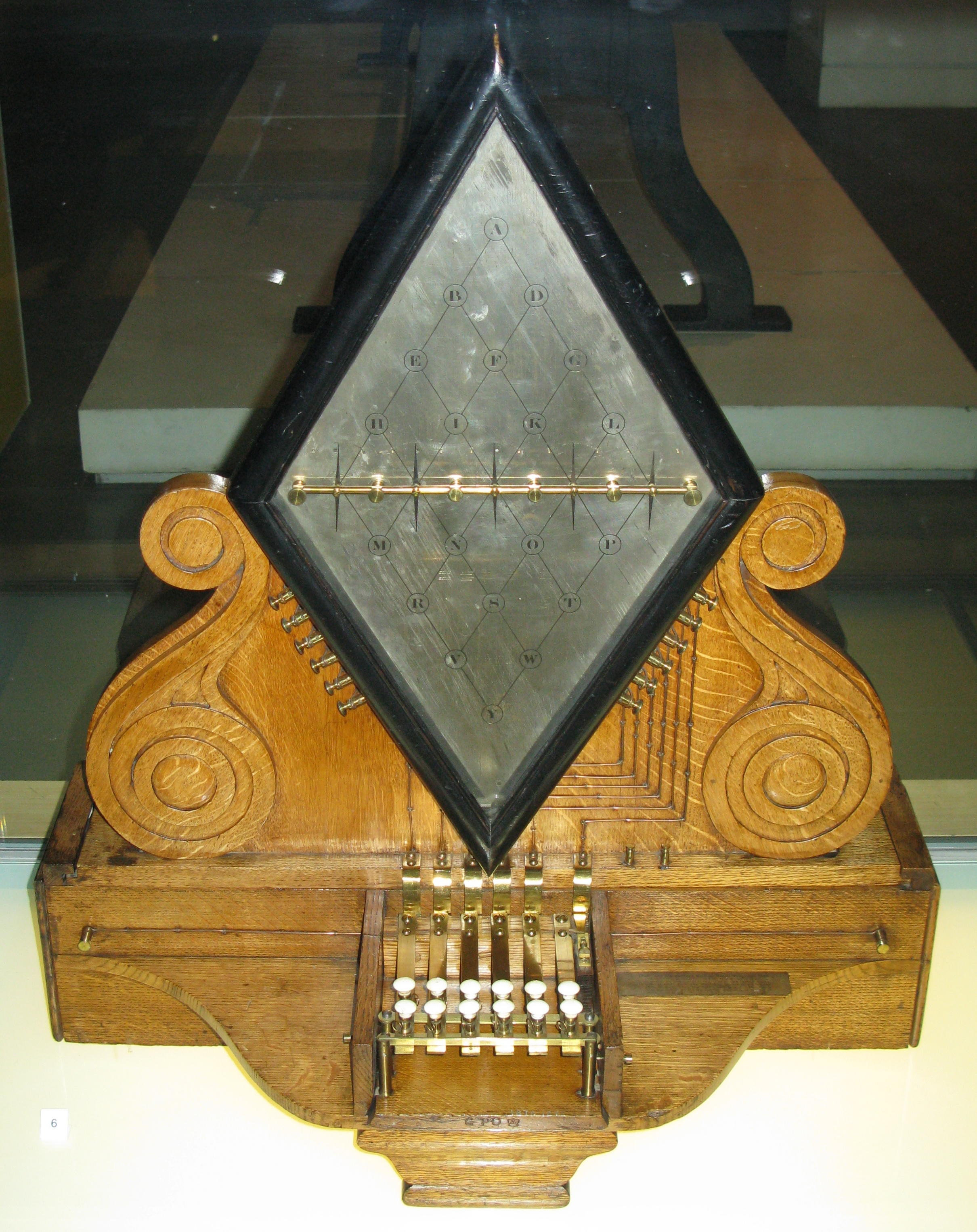 William Fothergill Cooke and Charles Wheatstone's electric telegraph ("needle telegraph") from 1837 now in the London Science Museam